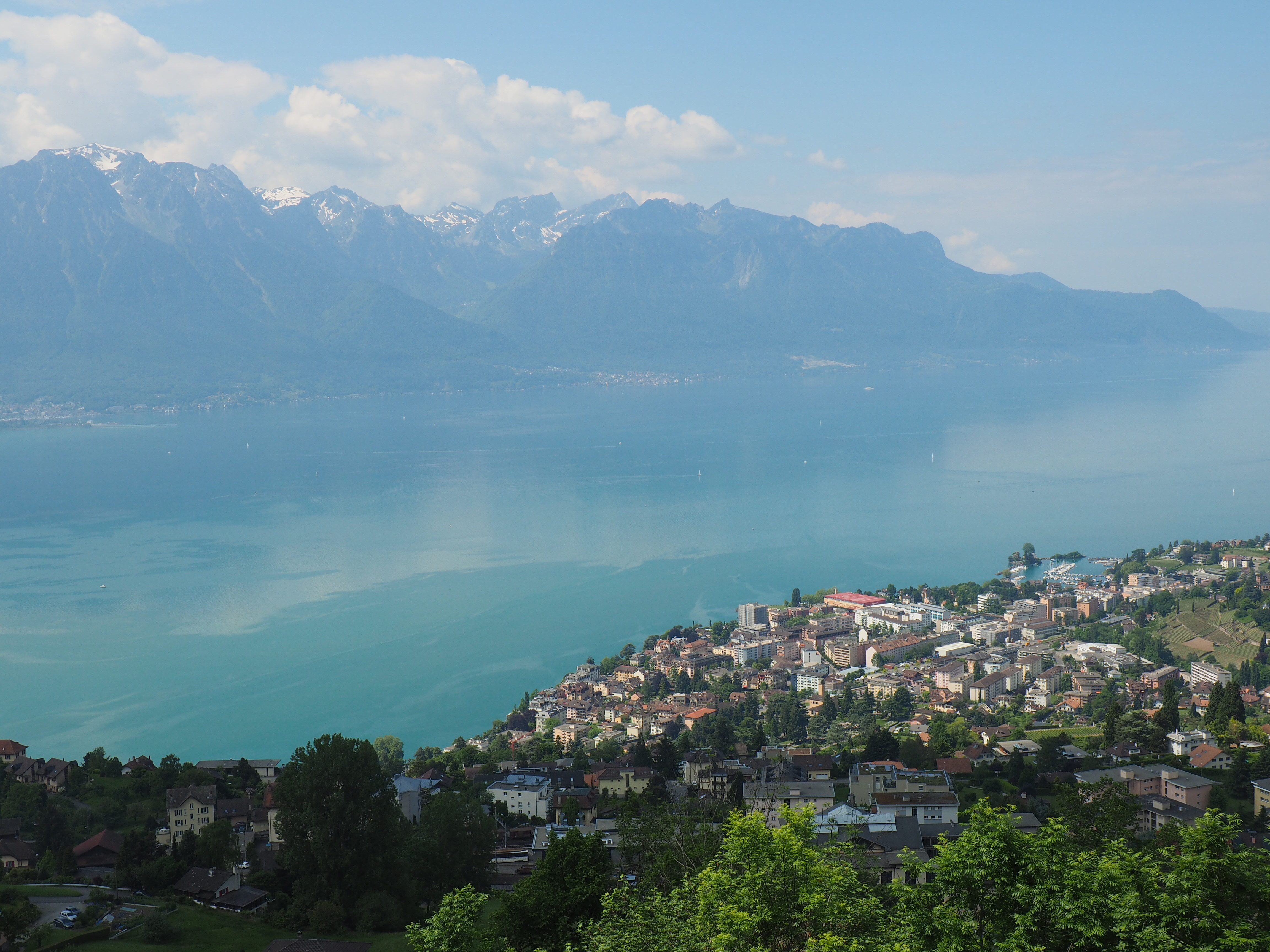 Montreux and lake Geneva from the Blonay /Chamby railway.